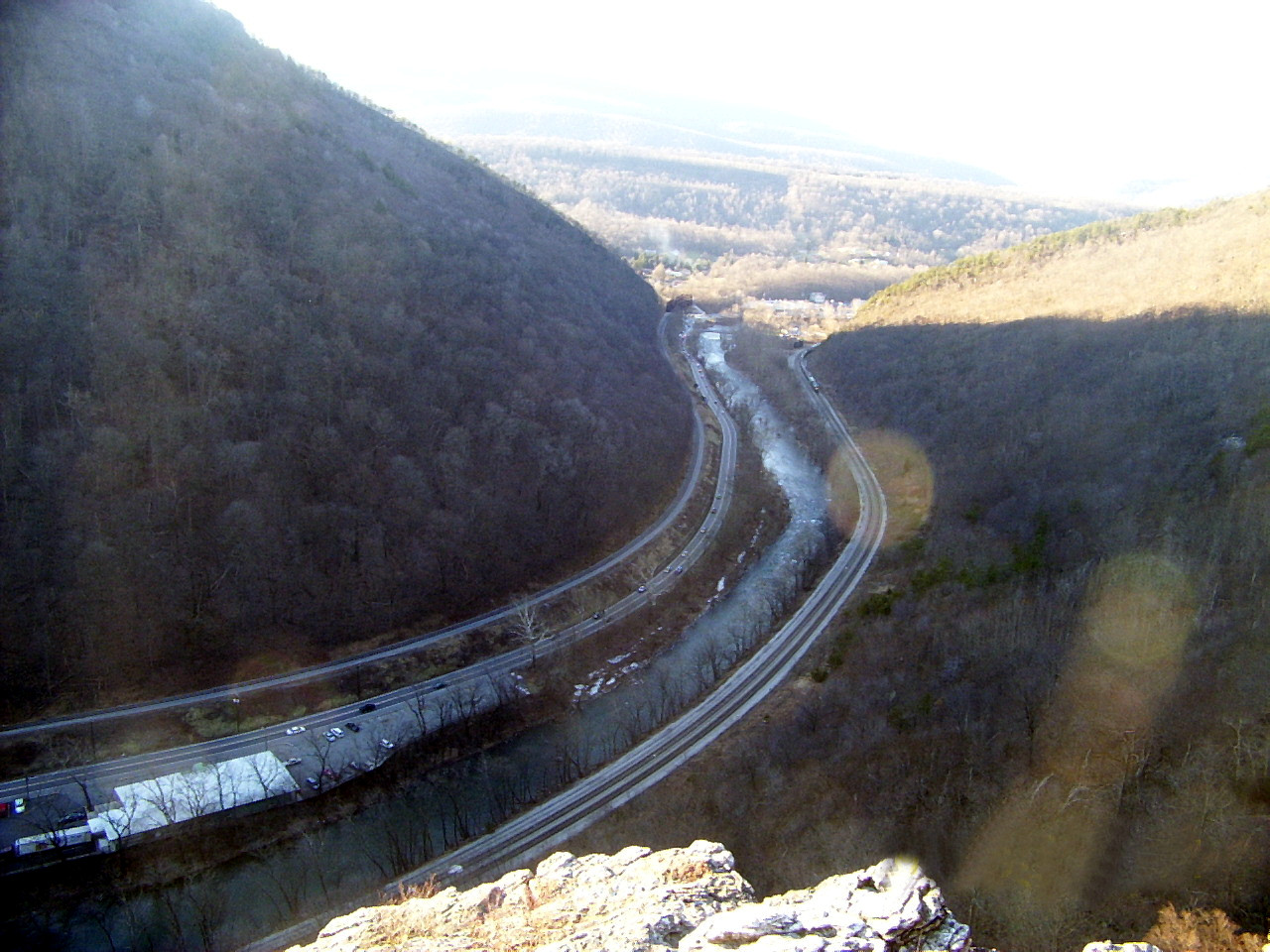 U.S. Route 40 Alternate, the National Road, and historic Cumberland Road runs through the pass from and above Cumberland, Maryland, as did the historic Baltimore and Ohio Railroad's tracks to the Monongahela Valley in Pennsylvania passing through the Cumberland Narrows pass above Cumberland, Maryland. The Western Maryland Railroad also ran track through the gap. • The anticlinal structure of the Tuscarora Formation (sandstone layer at top and sides of the mountain) is apparent in this photo.